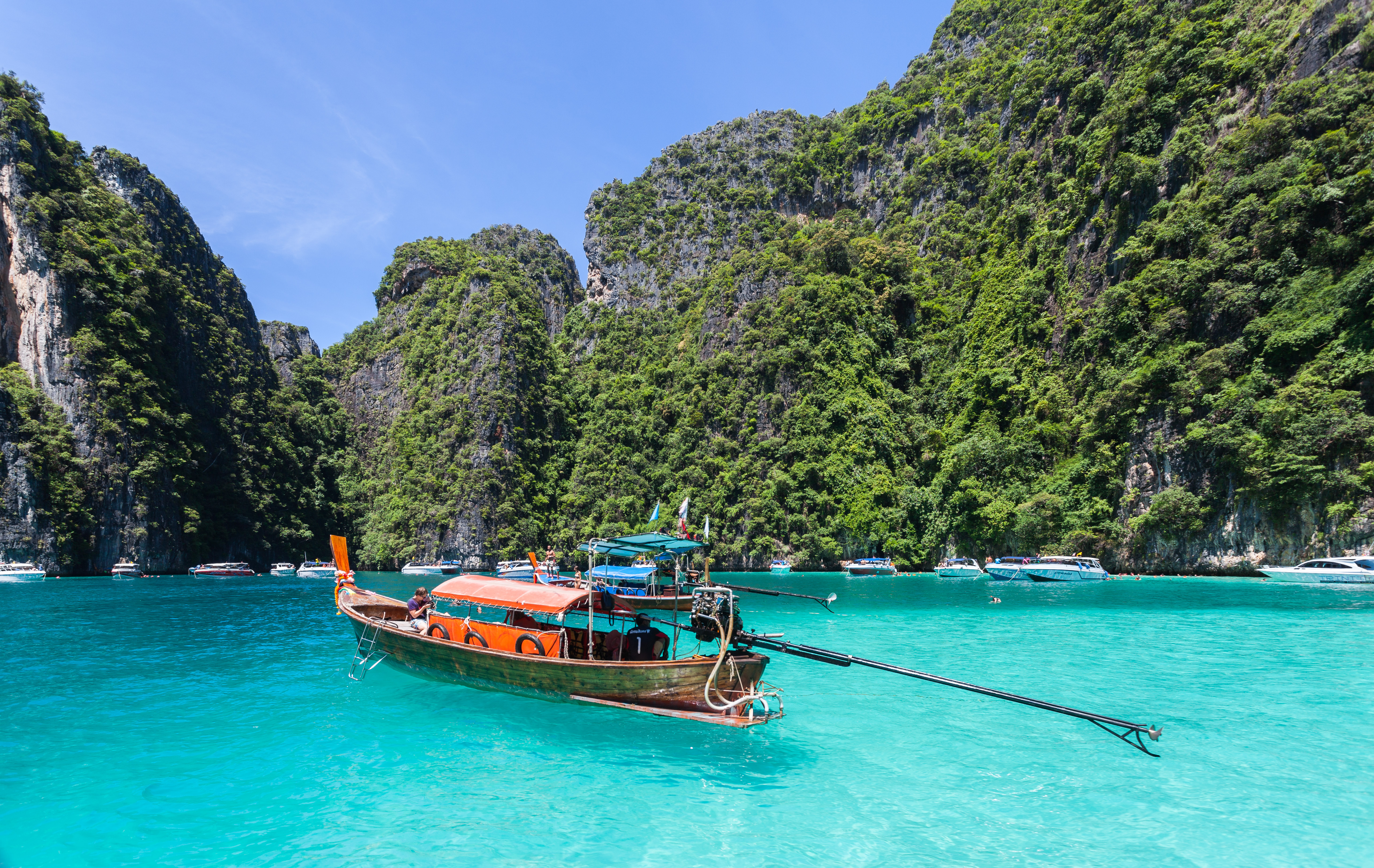 Phi Phi Lay Island, Thailand